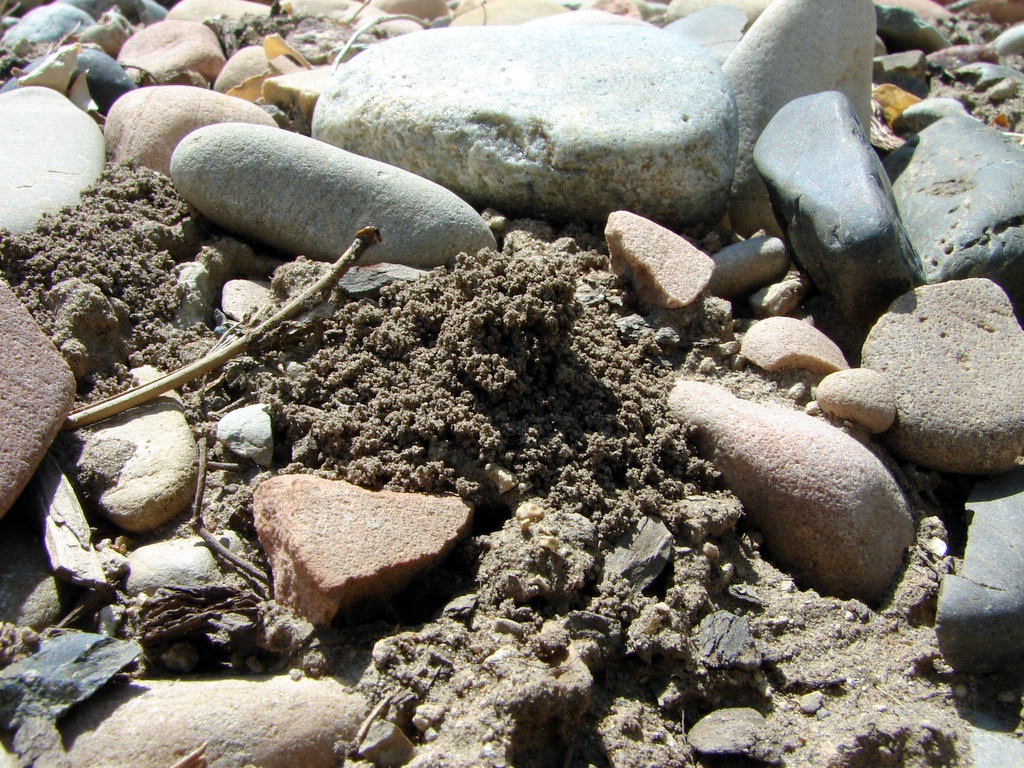 Burrow dug by female Halictus rubicundus bee amid pebbles USDA ARS photo by Jim Cane.